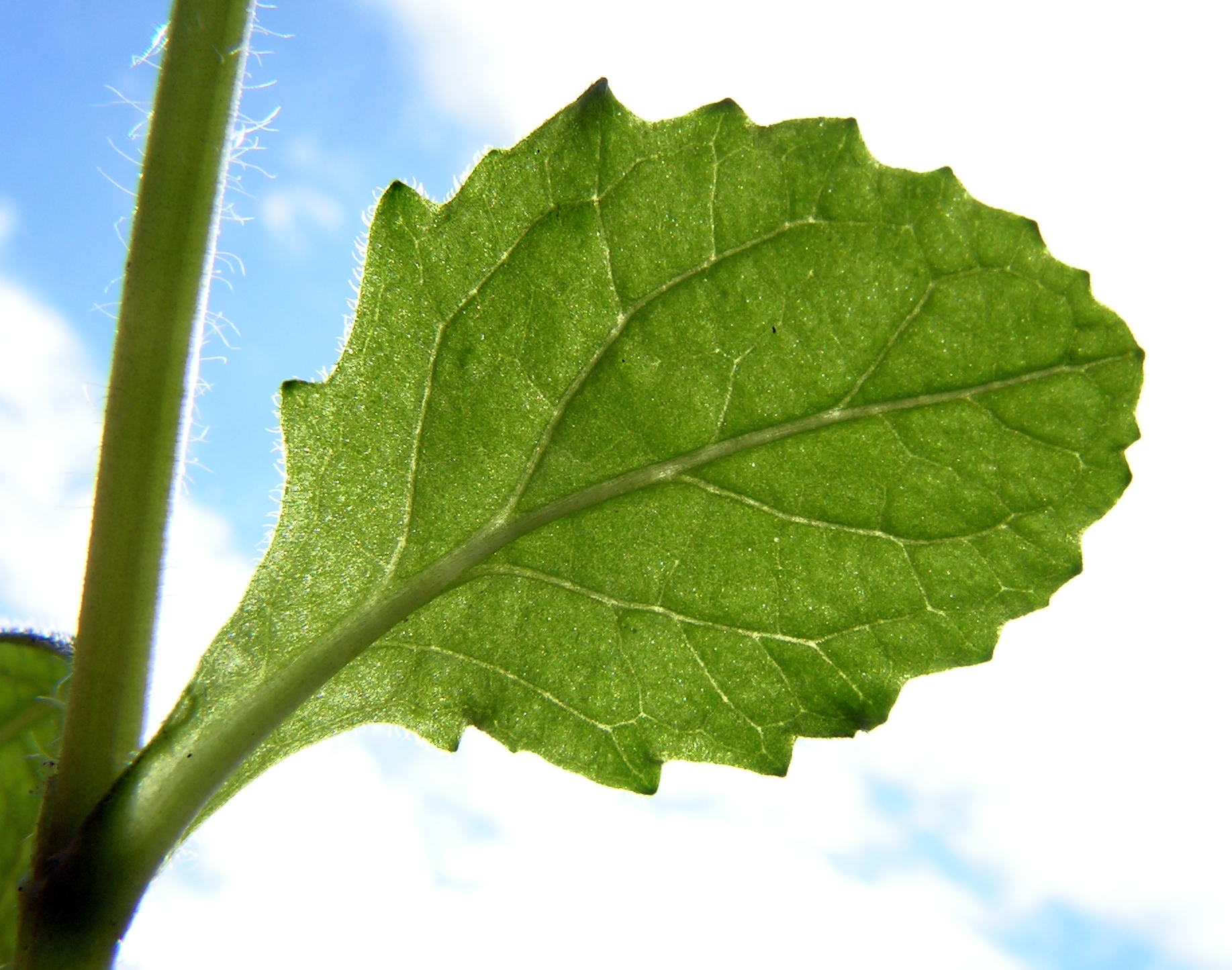 The leaf of Ajuga reptans. Moscow region, Russia.